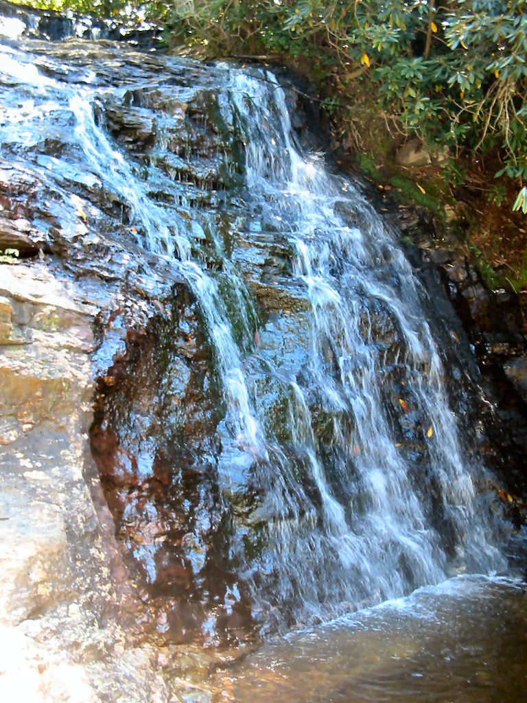 Upper Cascades, Hanging Rock State Park, taken by uploader, September 2005